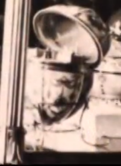 Photograph detail of the exhibition of the Imperial Family’s Fabergé collection held in the Von Dervis Mansion on the English Embankment, St. Petersburg (Russia) in March 1902. The exhibition was held in aid of the Imperial Women's Patriotic Society Schools and was the first public exhibition ever to display Fabergé's work in Russia. It was organised under the auspices of the Tsarina Alexandra Feodorovna.